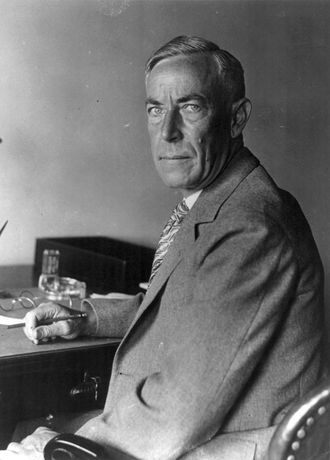 August Vollmer, "father of modern law enforcement"